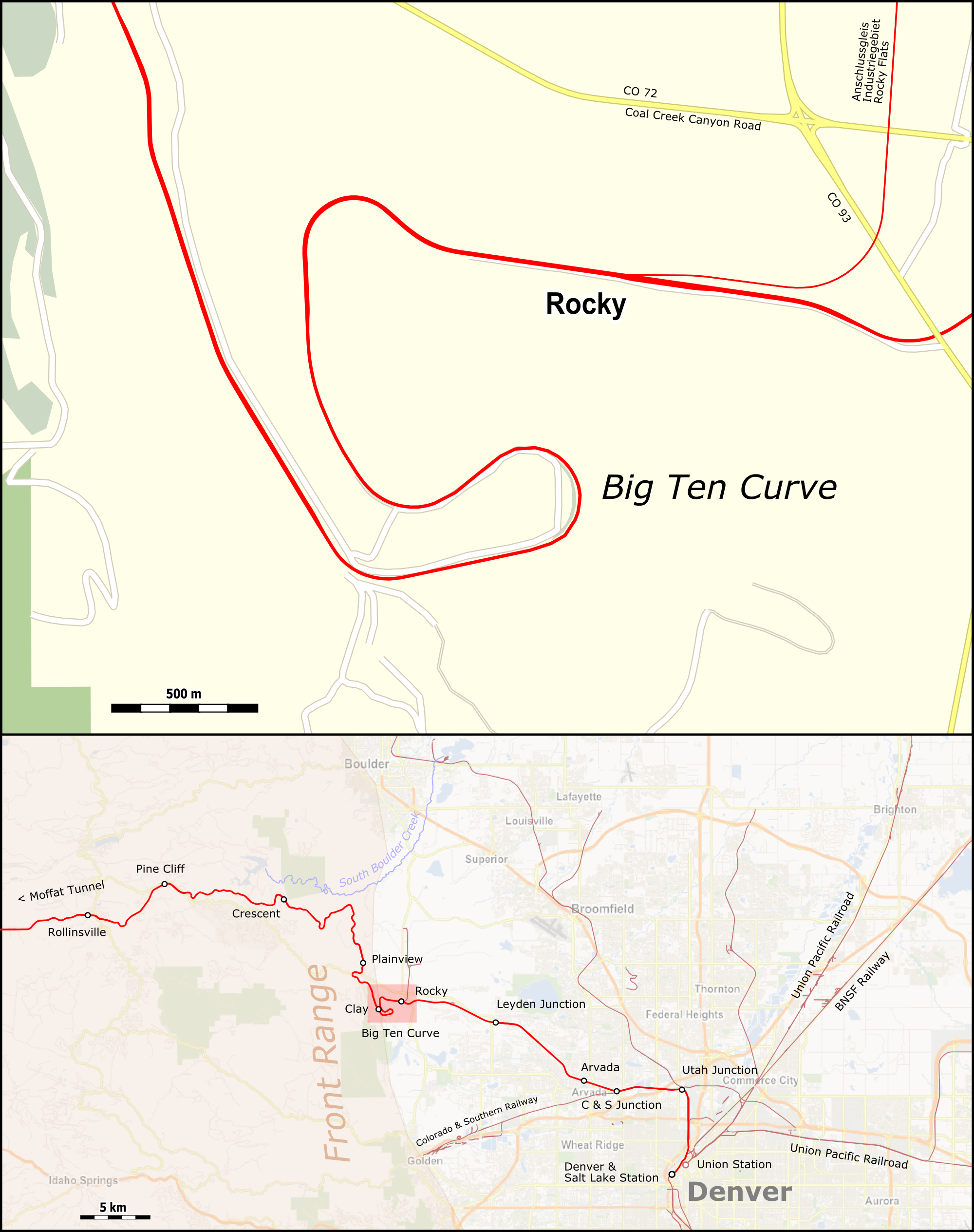 Map of the Big Ten Curve on the Moffat Route near Denver CO.